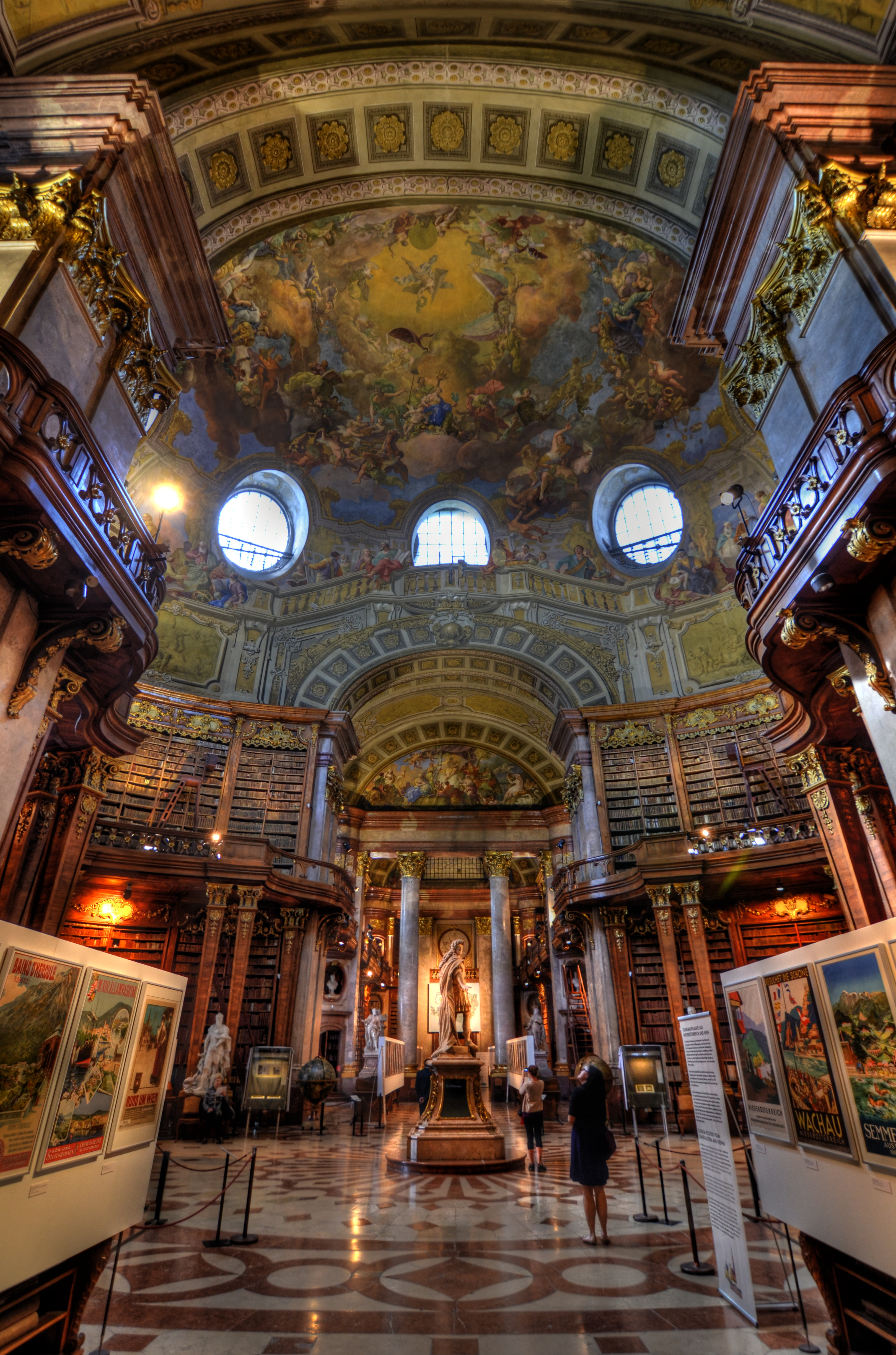 Austrian National Library. State Hall